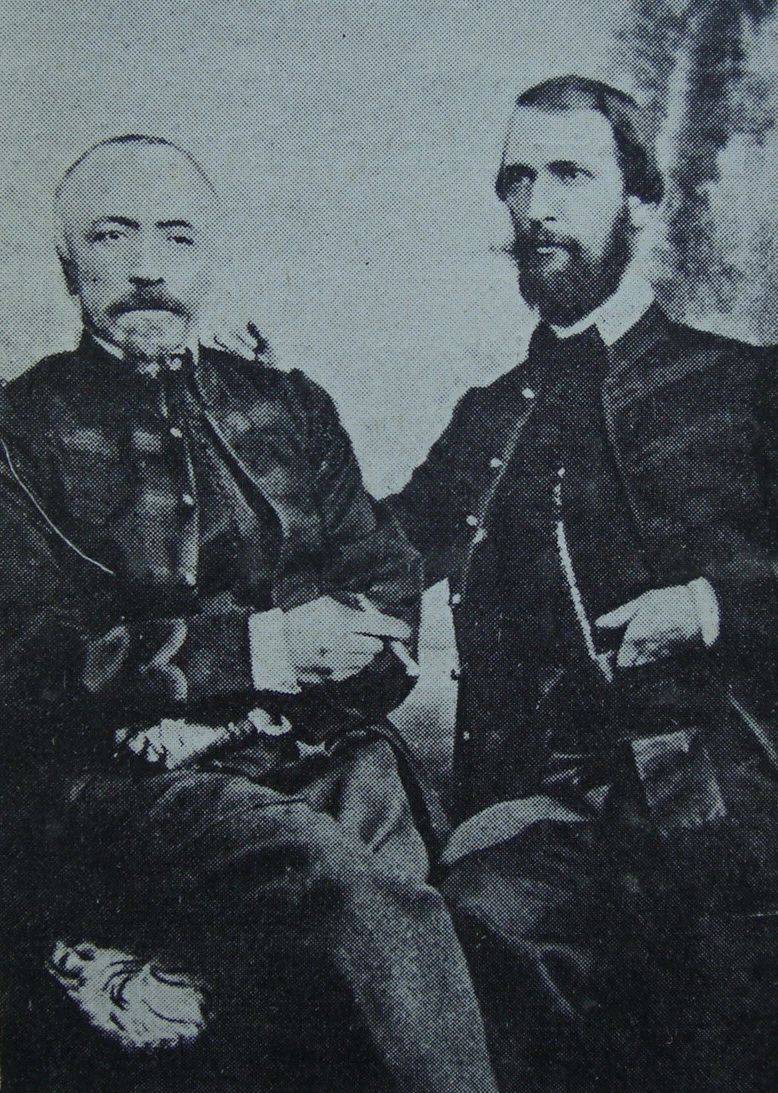 Feliks Jelenski (1810-1883) i Hieronim Wladyslaw Kieniewicz (1834–1864), Mozyr district landowners